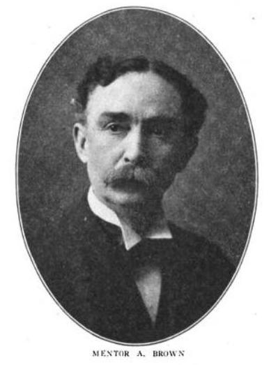 Photo of Mentor A. Brown, who founded of the Kearney Hub newspaper in 1888.